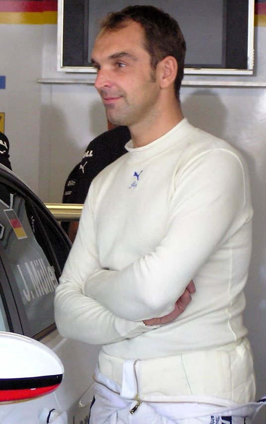 Jörg Müller (BMW Team Germany {Schnitzer Motorsport}) at the qualify session in Curitiba.